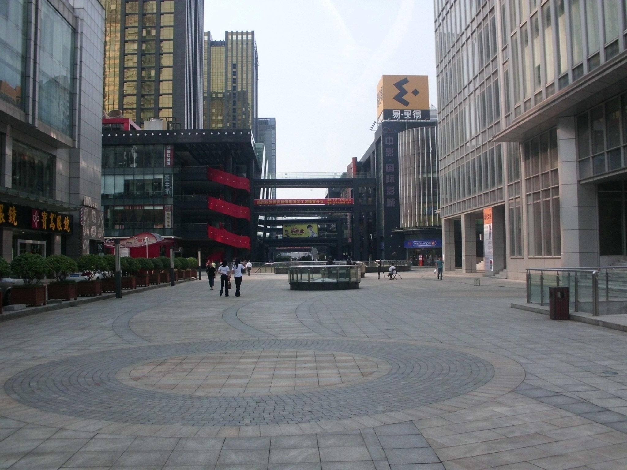 Binjiang District